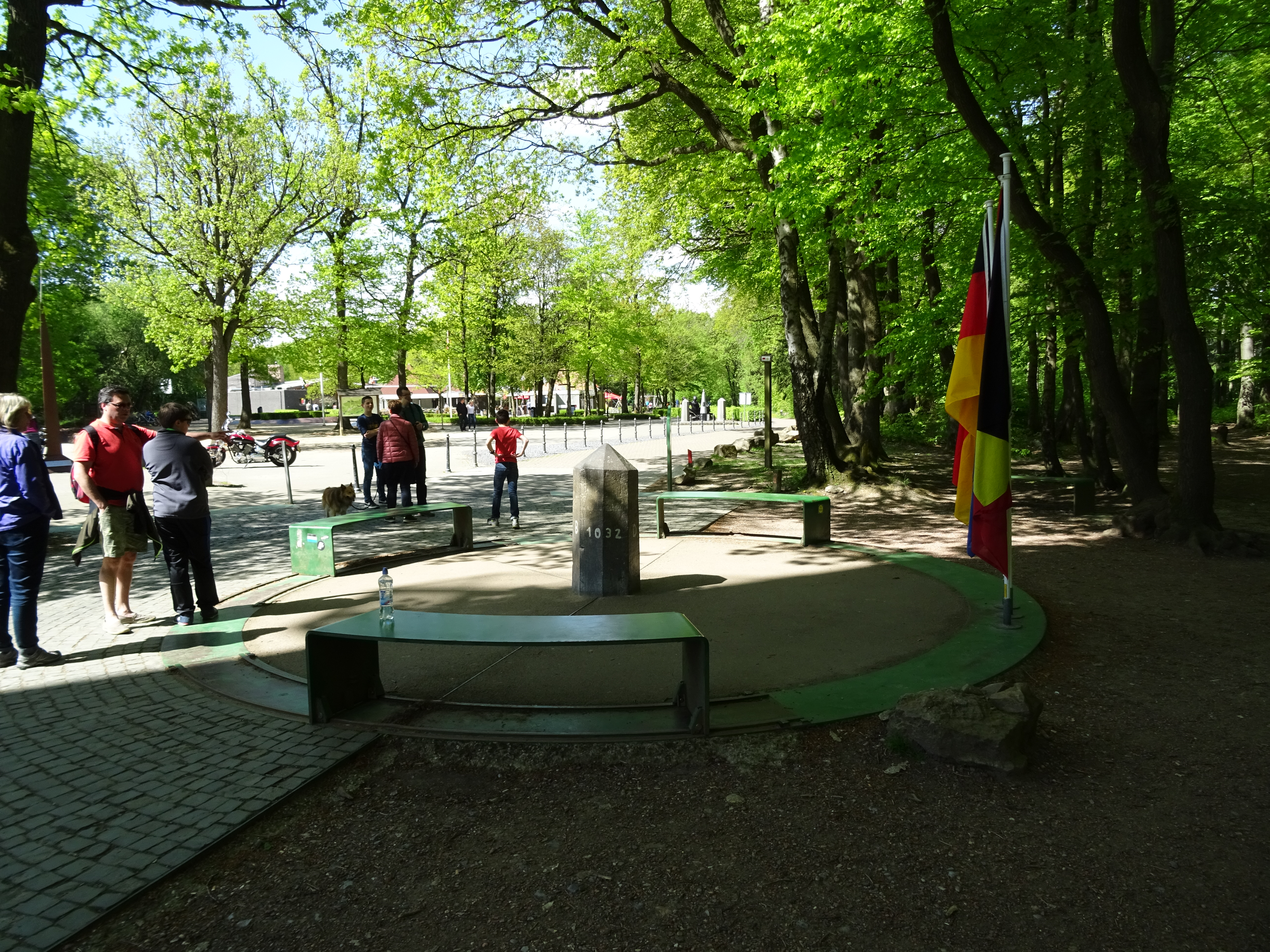 The point where the borders of Belgium, Germany and the Netherlands meet. Viewed from the German side in April 2018. The green metal lines represent the borders while the concrete post marks the spot where they meet. The Point is known as Drielandenpunt in Dutch, Dreiländereck in German and Trois Frontières in French.